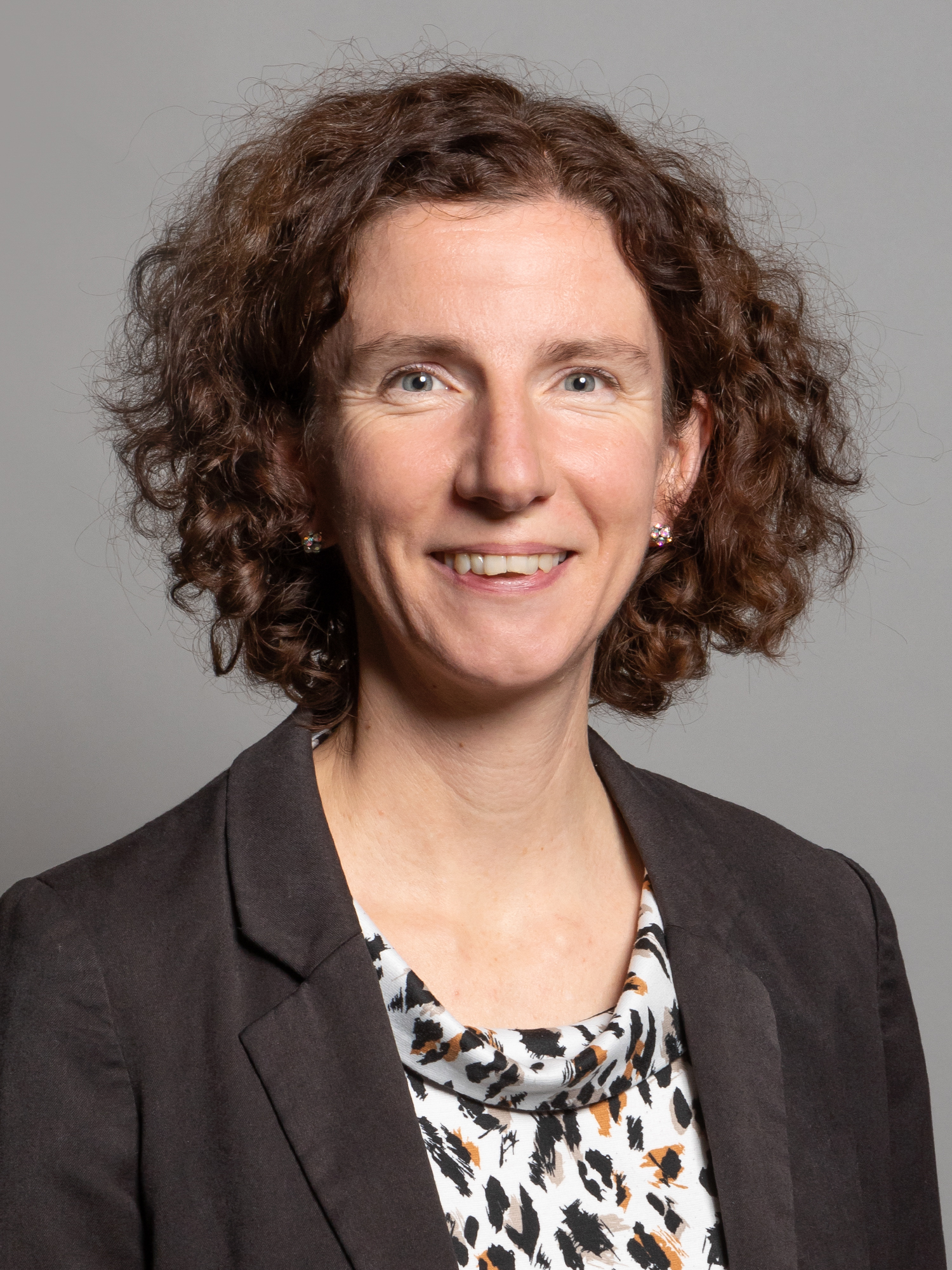 Official portrait of Anneliese Dodds MP 3×4 portrait of Anneliese Dodds